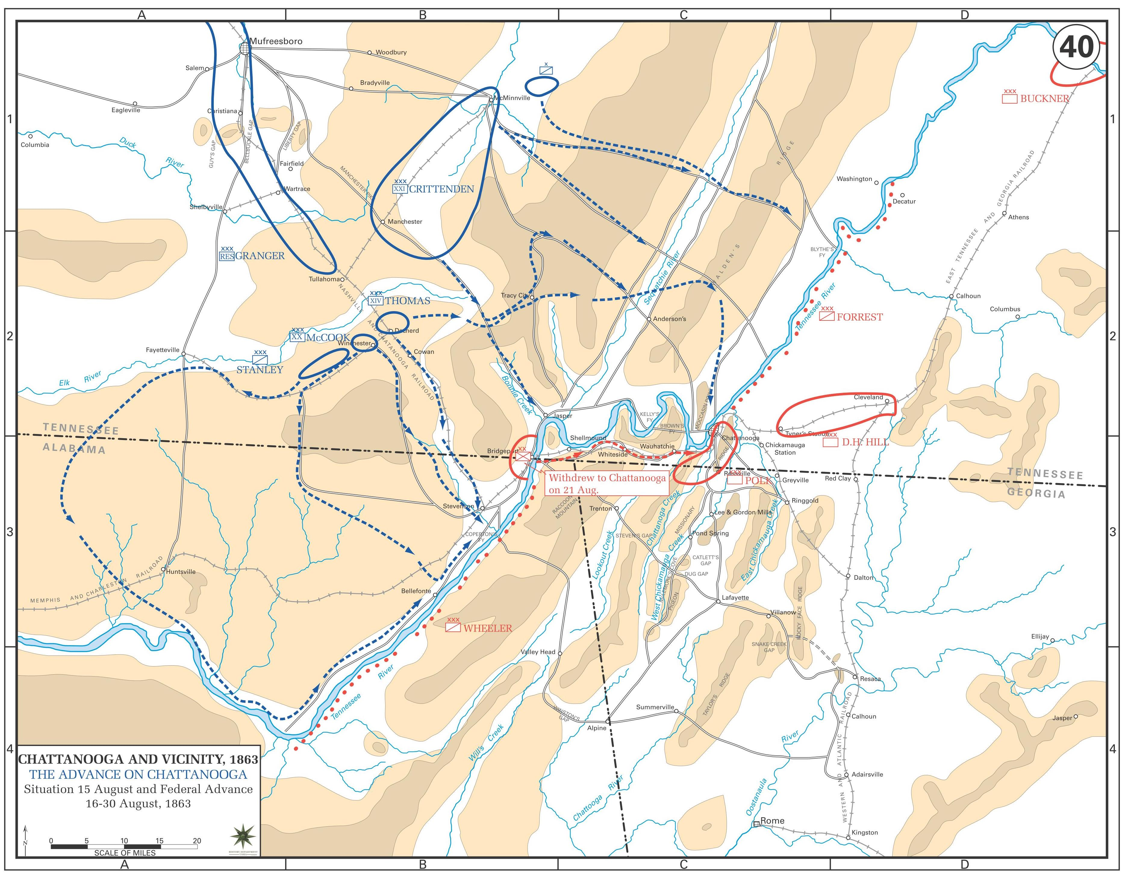 Western Theater: movements 15-30 August 1863 (Chickamauga Campaign).